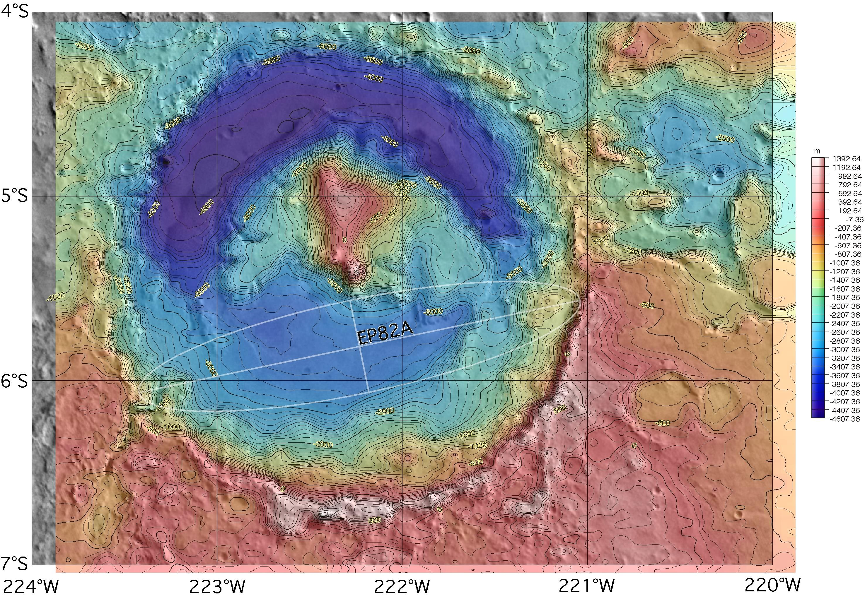 Topographic map of Gale crater on Mars, with the proposed but rejected landing ellipse for the MER-A superimposed. The MER lander was ultimately sent elsewhere, but the opposite side of the crater was selected for the 2011 Mars Science Laboratory rover.